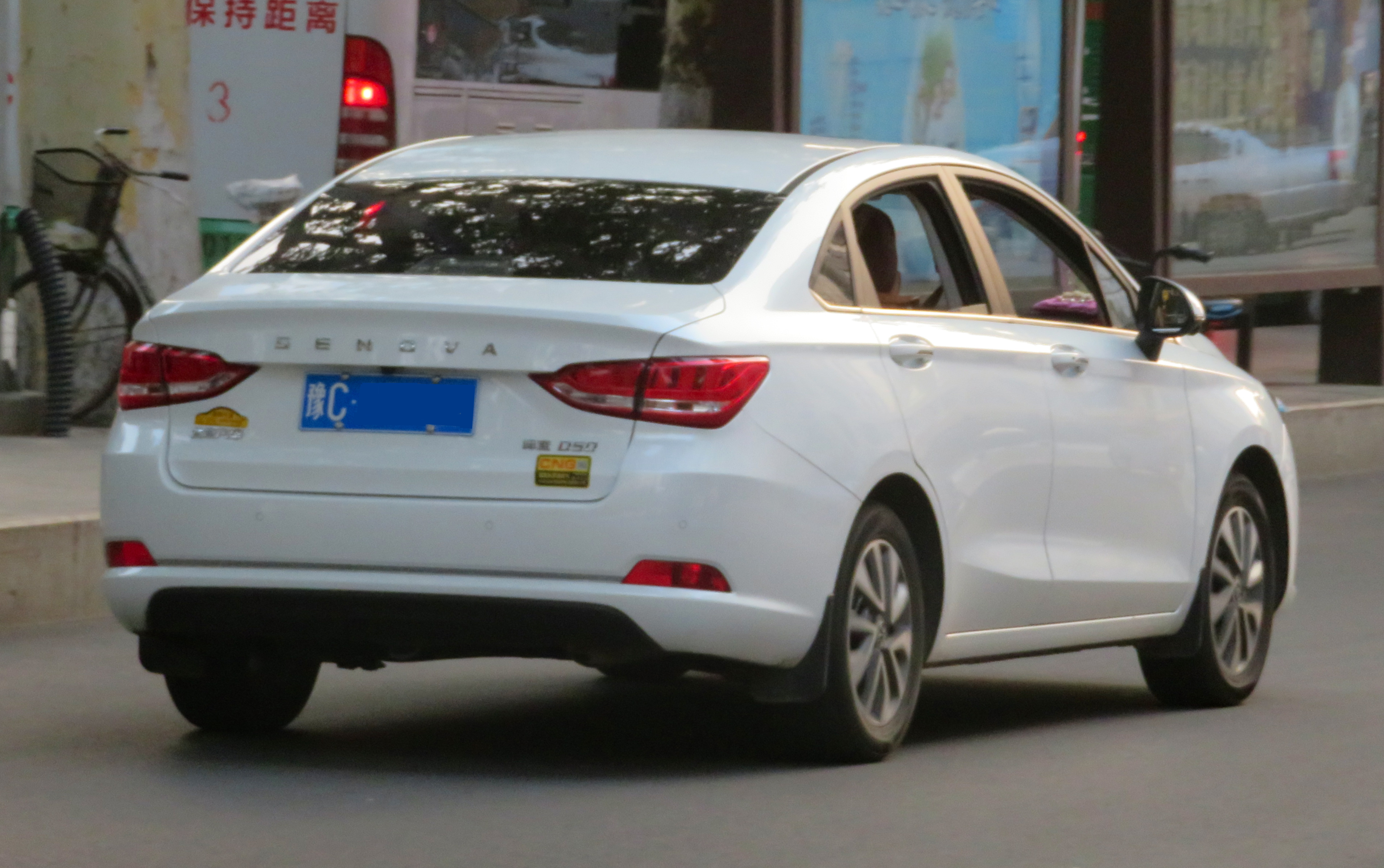 A 2018 BAIC Senova D50 photographed in Luoyang, Henan province, China